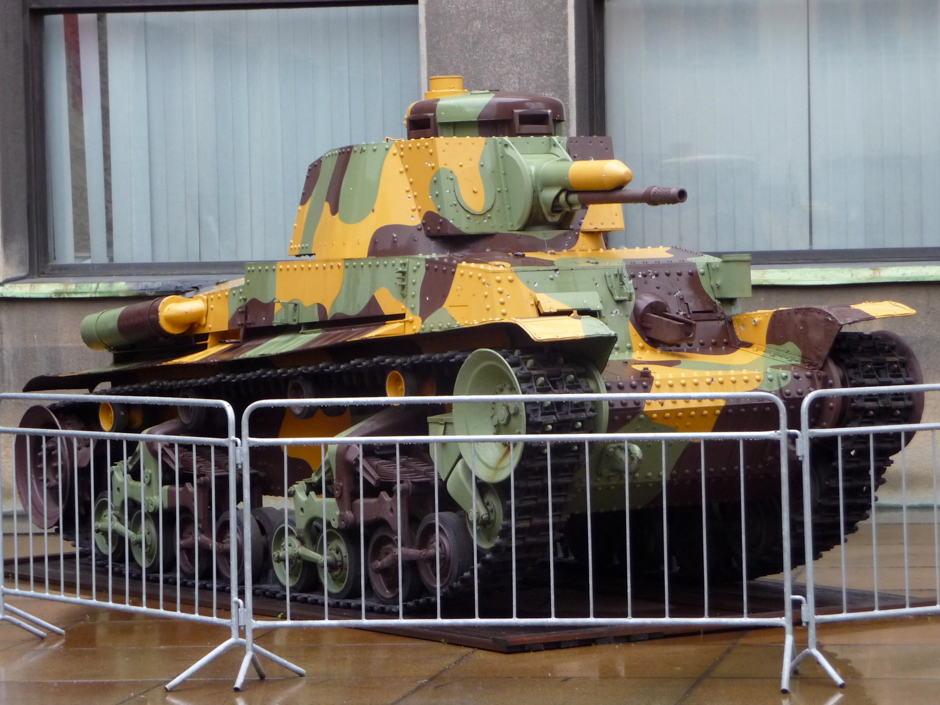 The Czechoslovak light tank LT vz. 35 in front of the building of Vojenský historický ústav on Vítkov (Prague, Czechia).